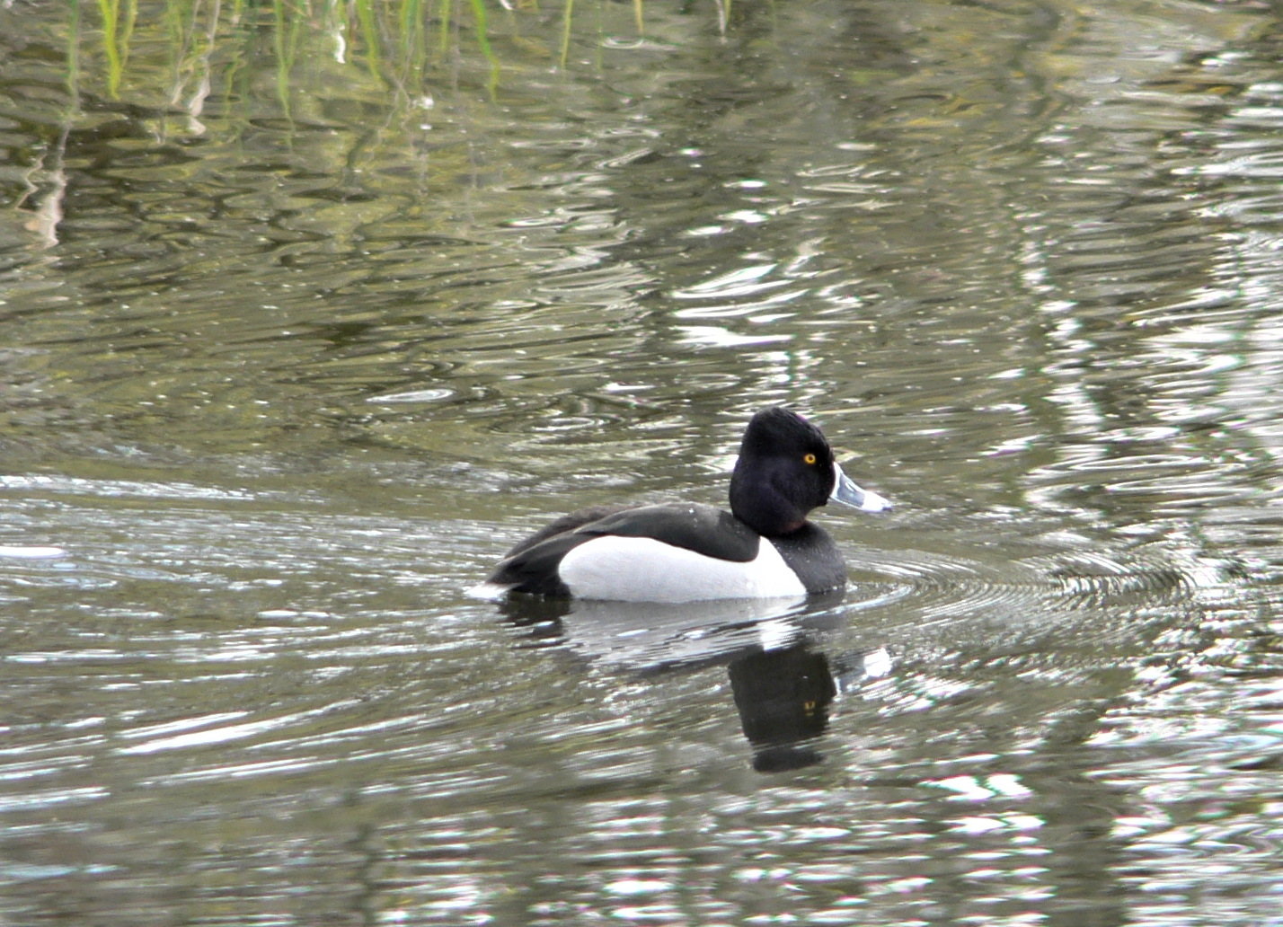 Ring-necked Duck male